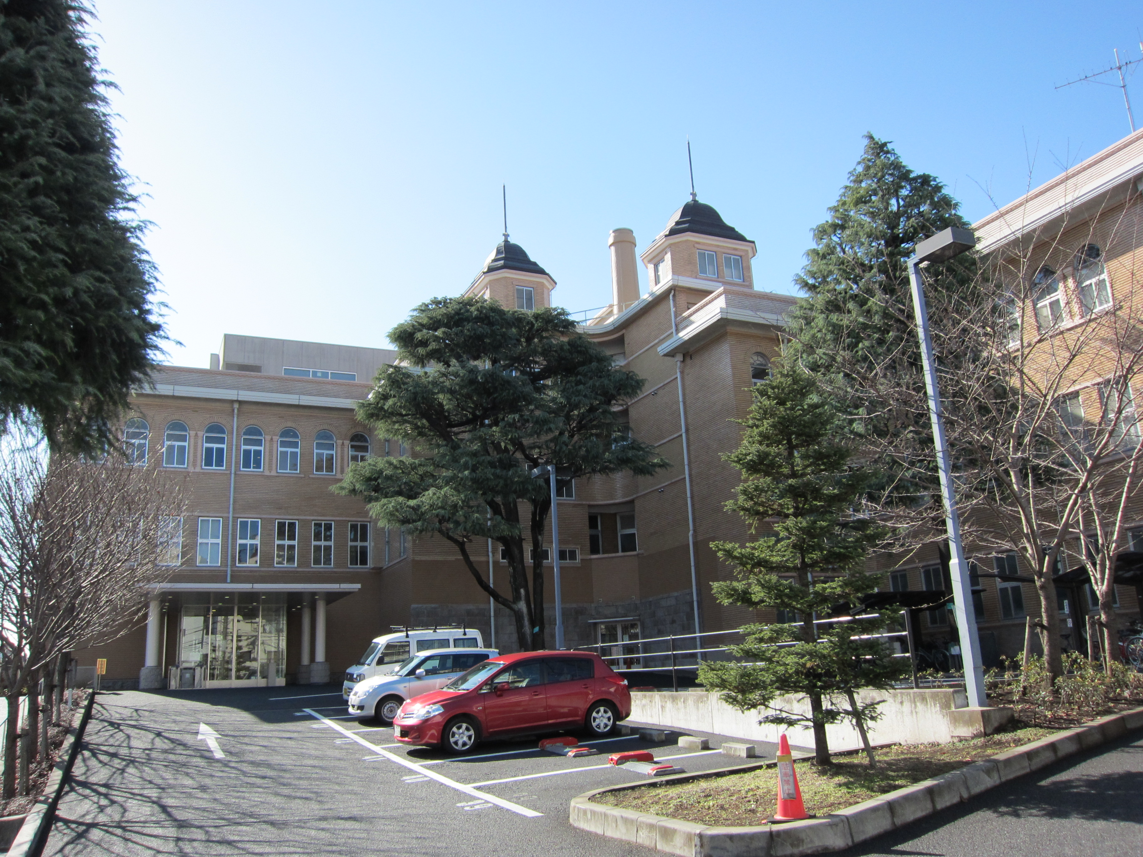 International Catholic Hospital